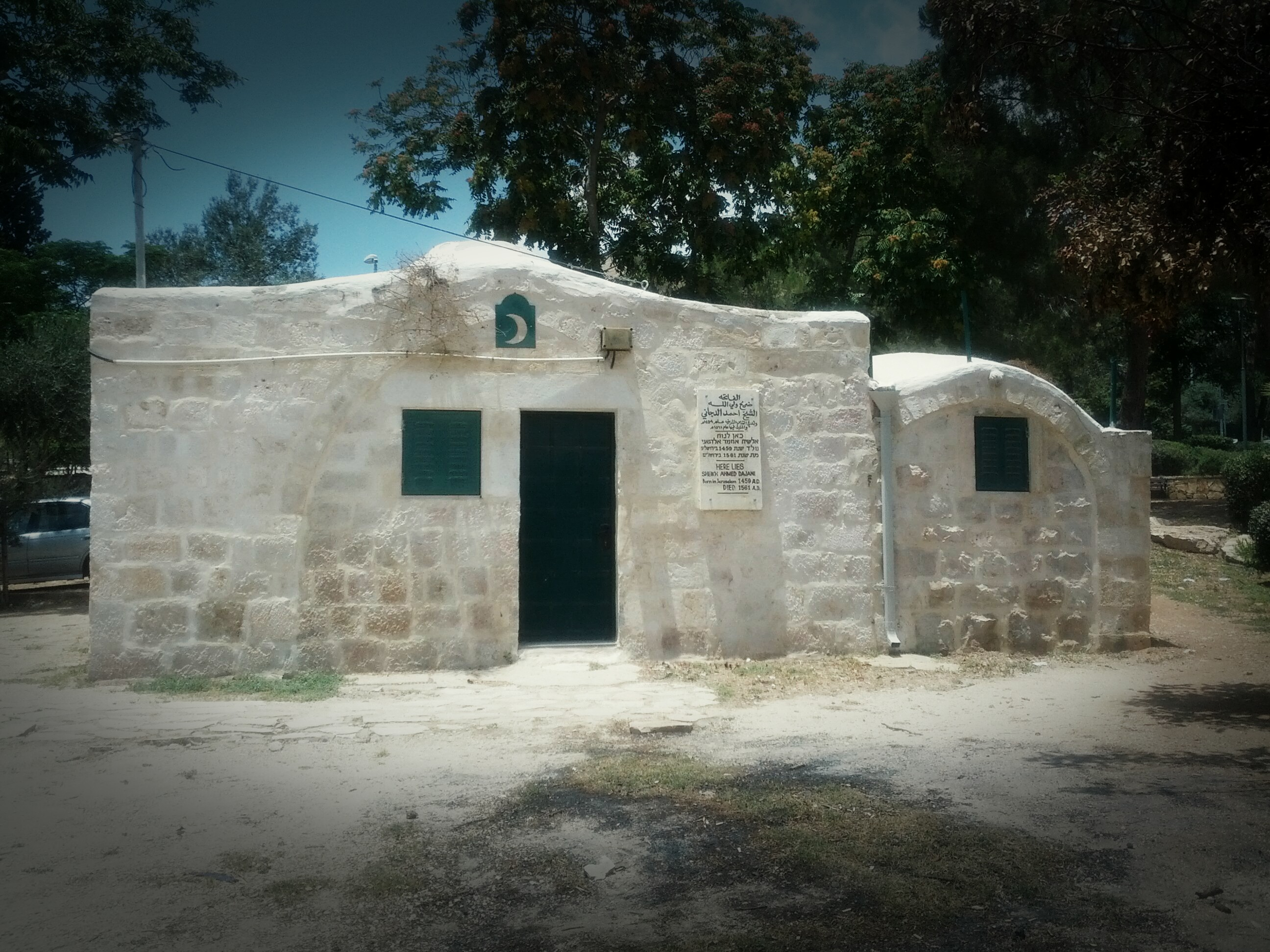 Muslim tomb, attributed to Sheikh Ahmad el-Dajani independence park Jerusalem